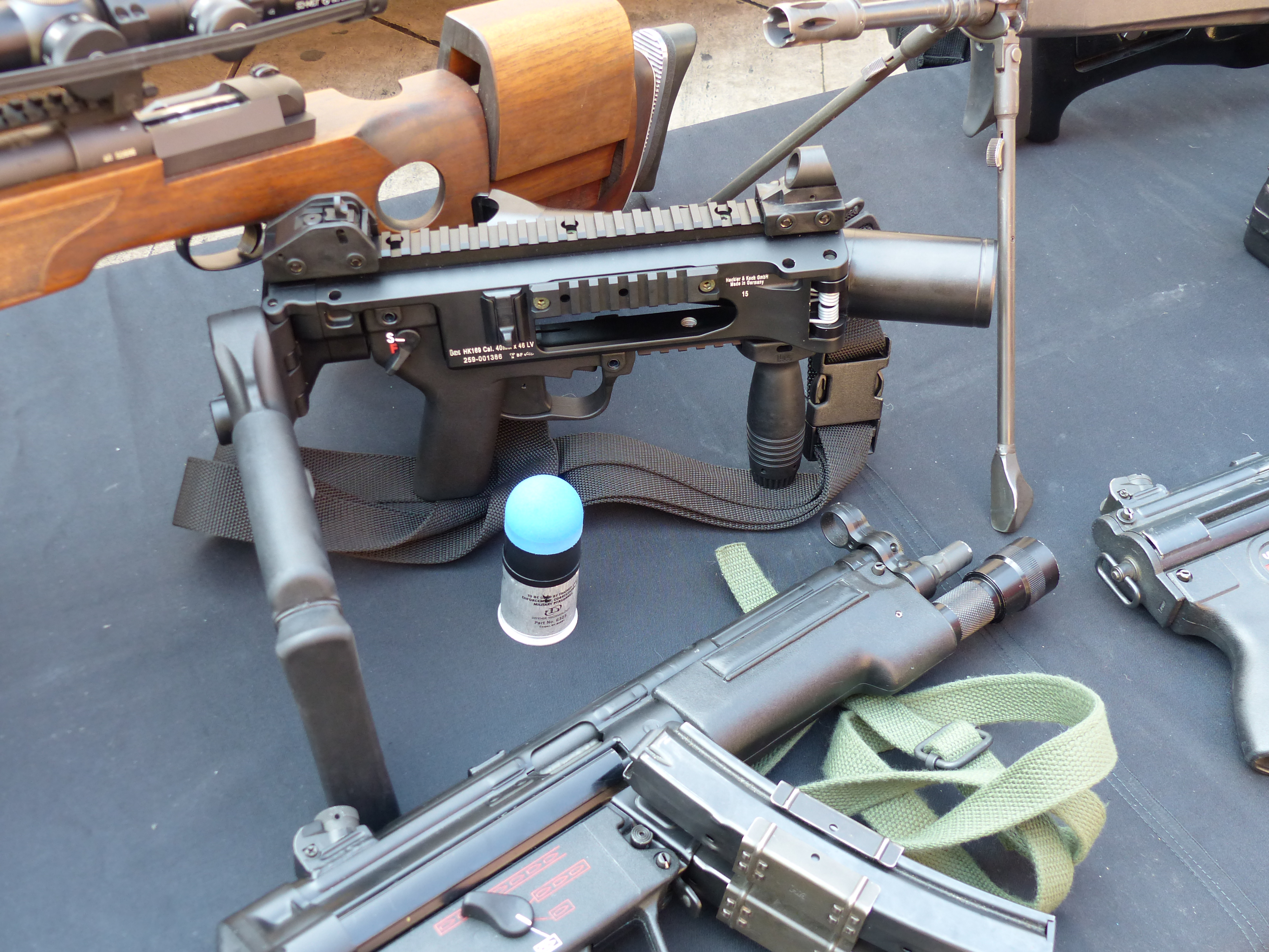 HK169 of the Grupo Especial de Operaciones.